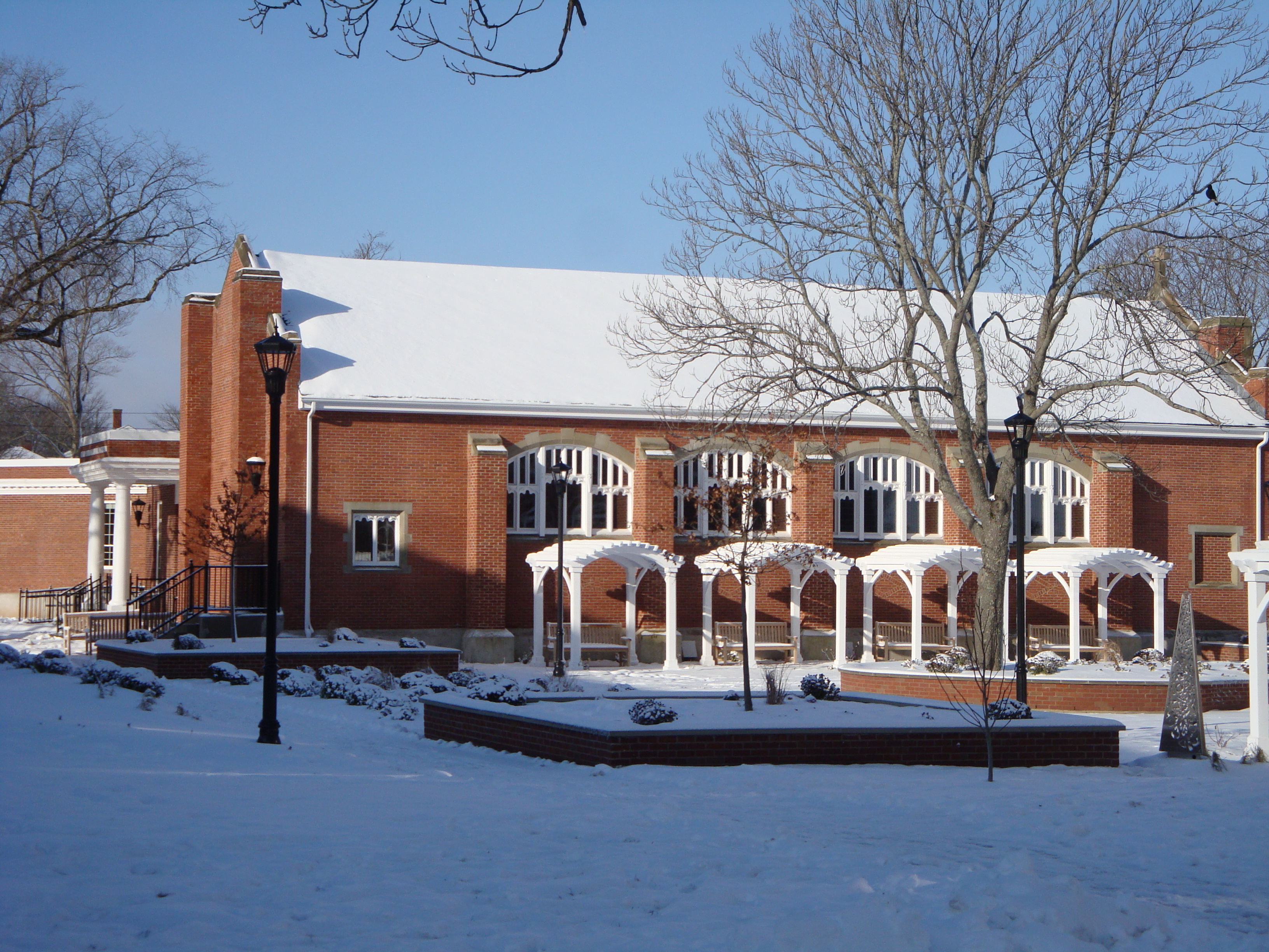 Coady International Institute, St. Francis Xavier University, Antigonish, Nova Scotia, Canada.